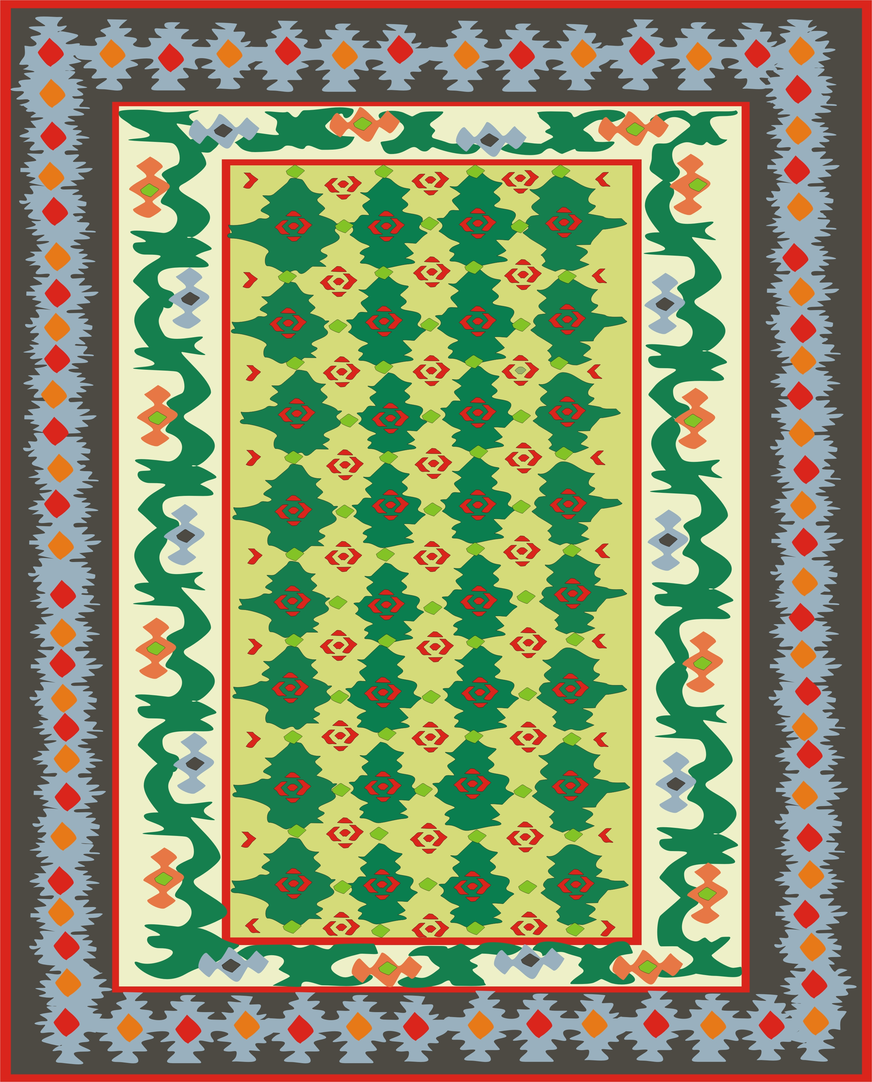 Bosanska šara, Pirot kilim